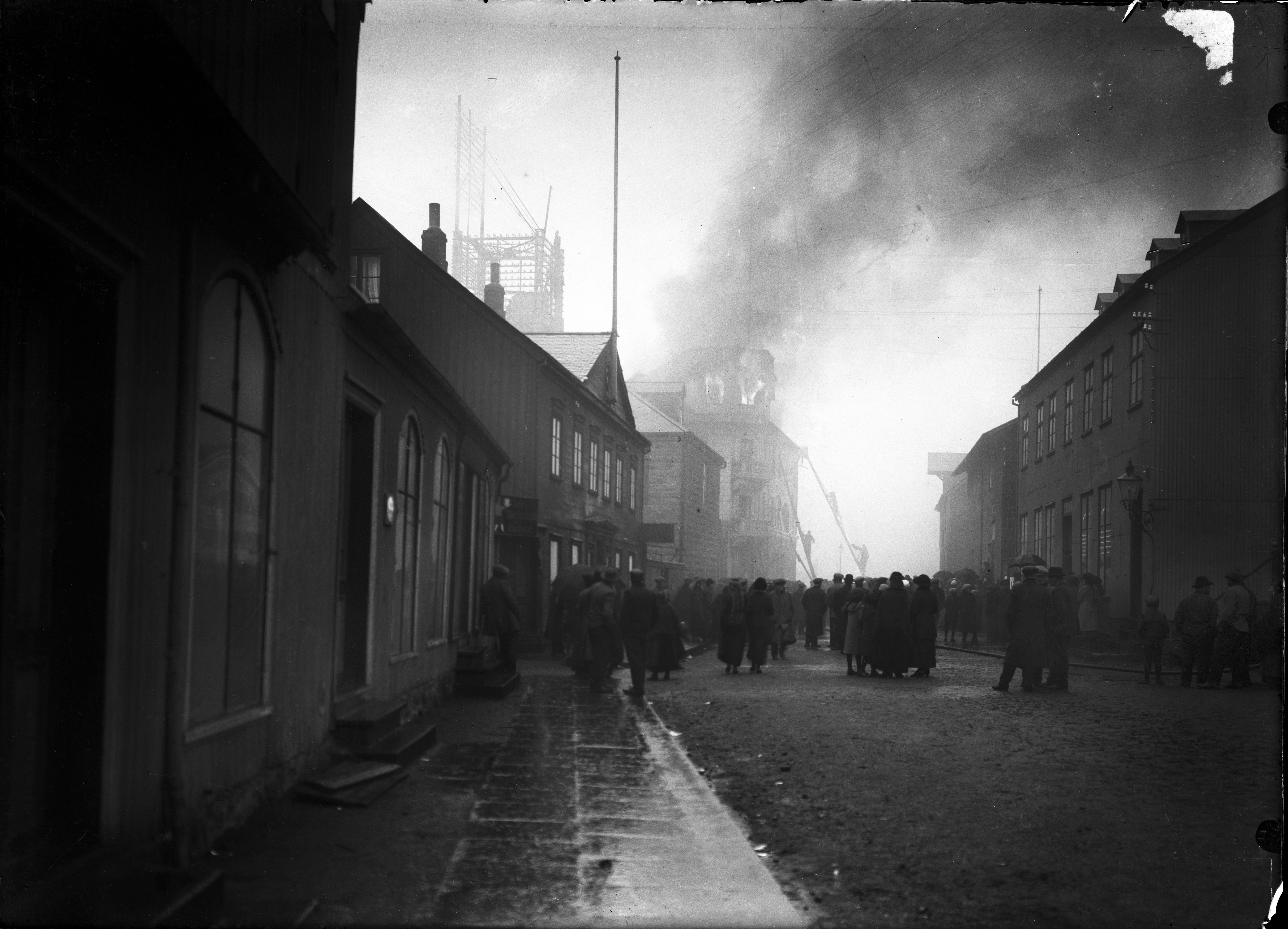 Fire in Reyavík April 25 1915. Photo taken in Hafnarstræti.